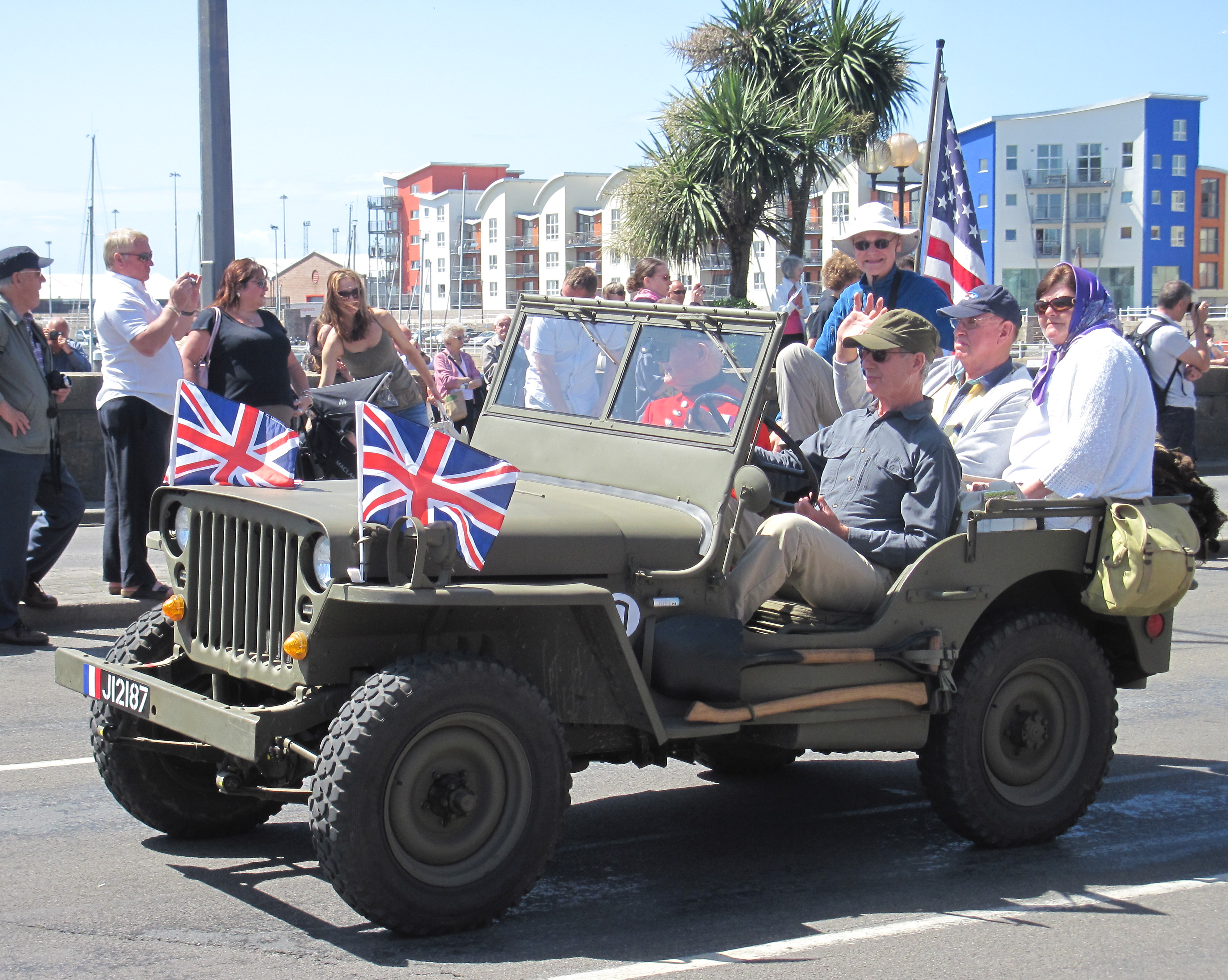 Hotchkiss M201 jeep. Liberation Day celebrations in Jersey 2011